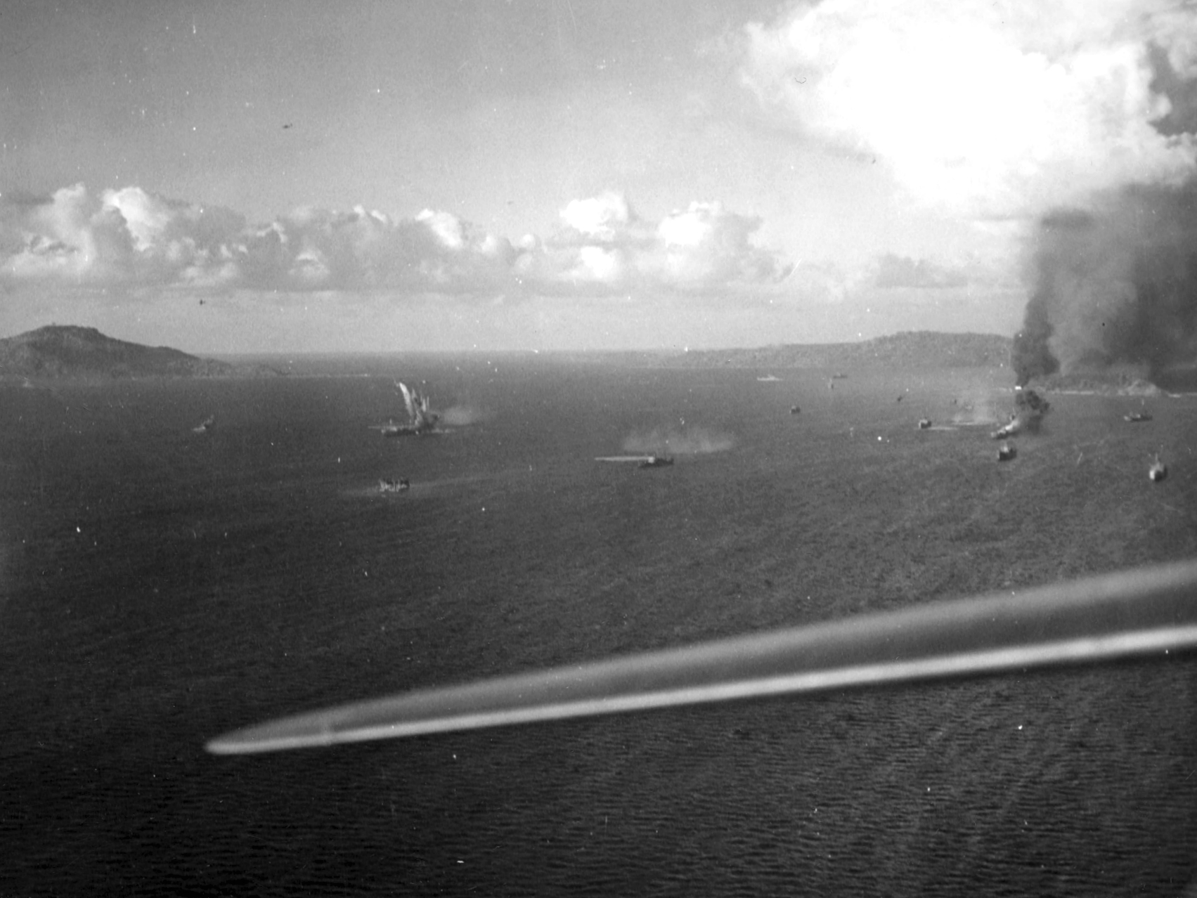 Japanese ships in Truk Lagoon under attack, 16 February 1944. Eten Island is at right. The photo was taken from a U.S. Navy Grumman TBF Avenger of Torpedo Squadron Six (VT-6) from USS Intrepid (CV-11) at about 0845 hrs.